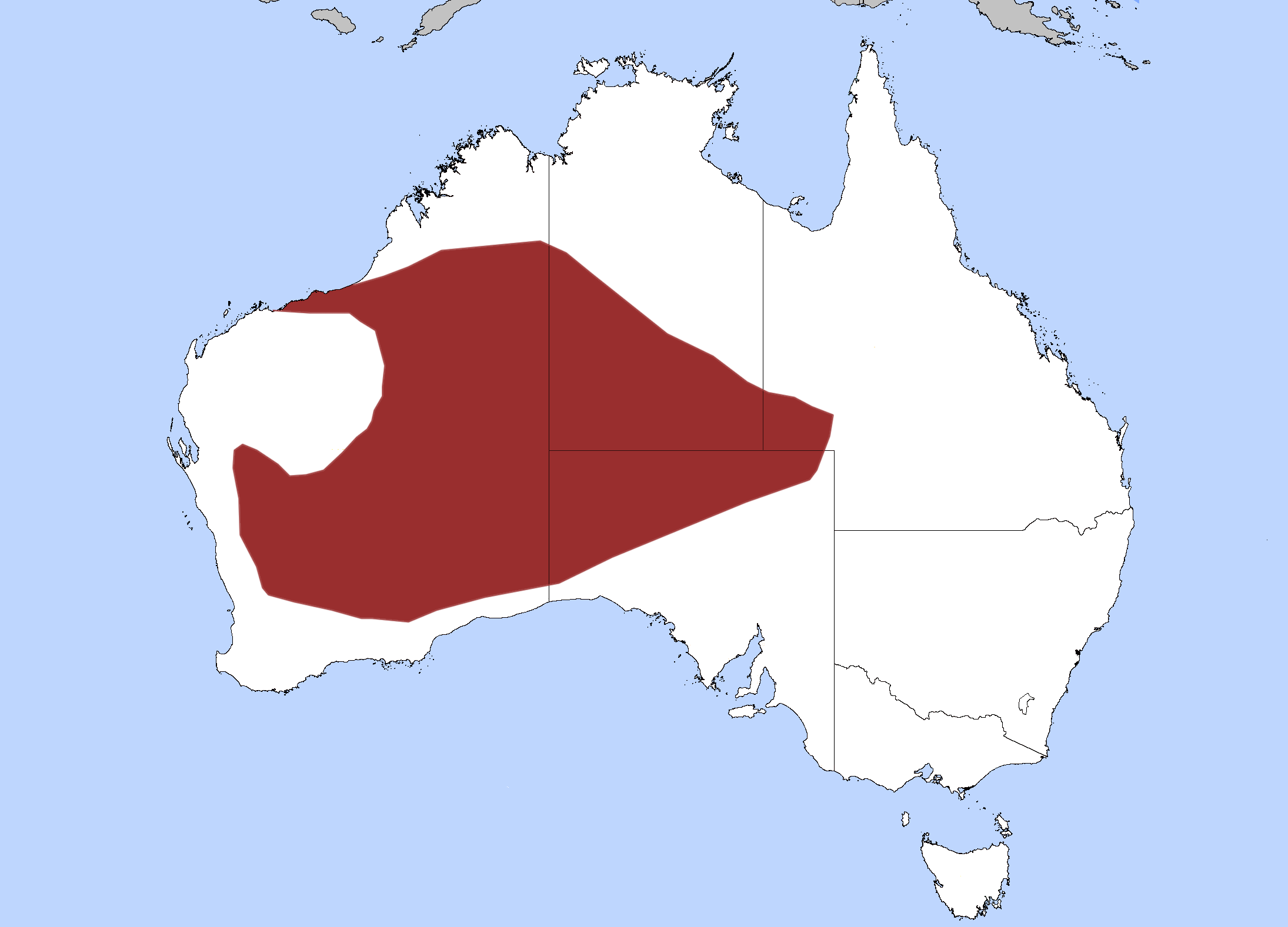 The Distribution of the Desert Death Adder